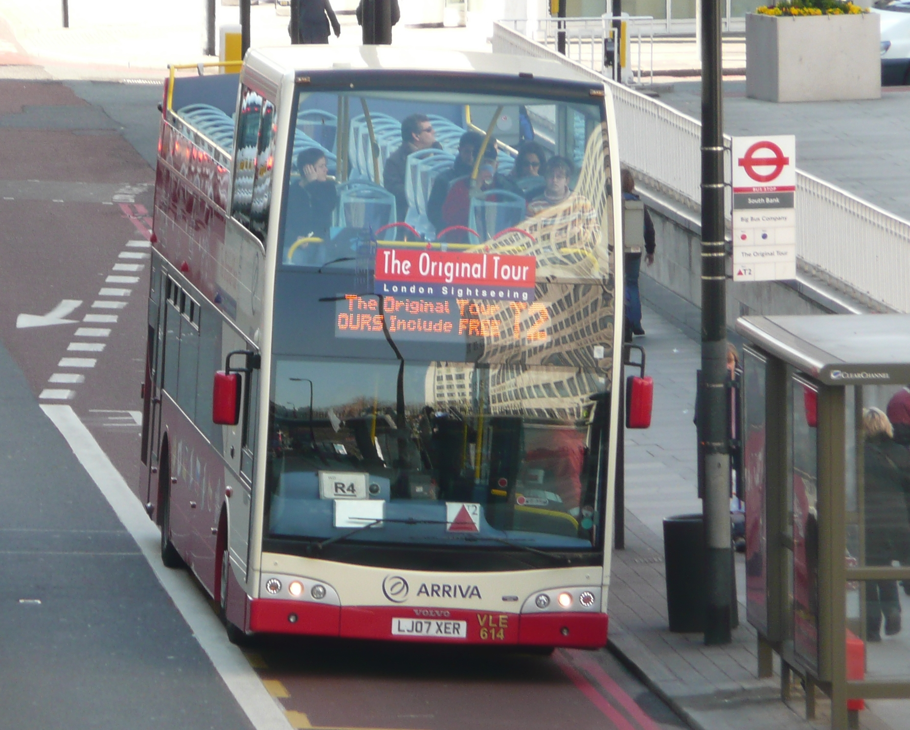 An Arriva Original Tour bus beside Waterloo Station.